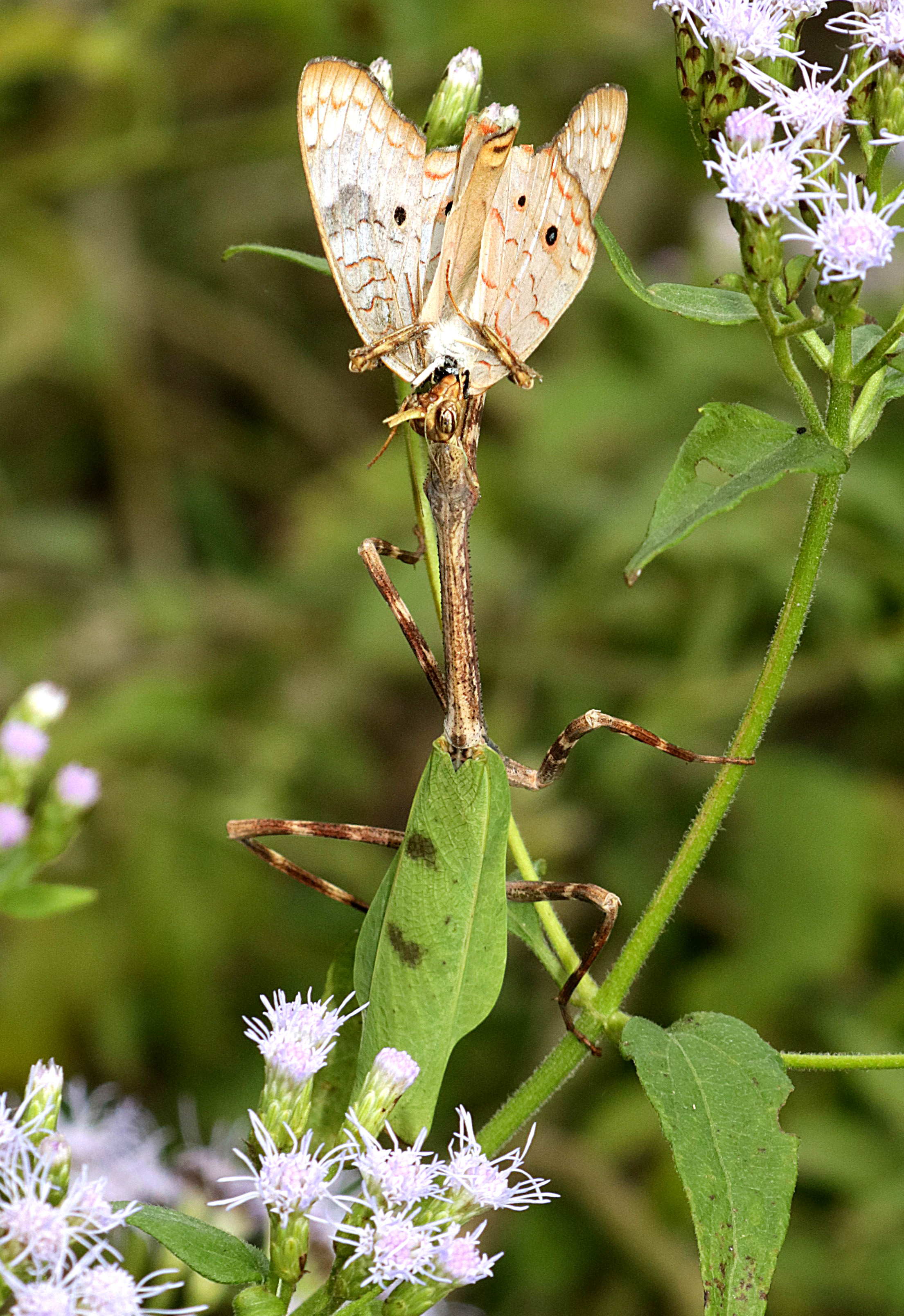 "Bugs"